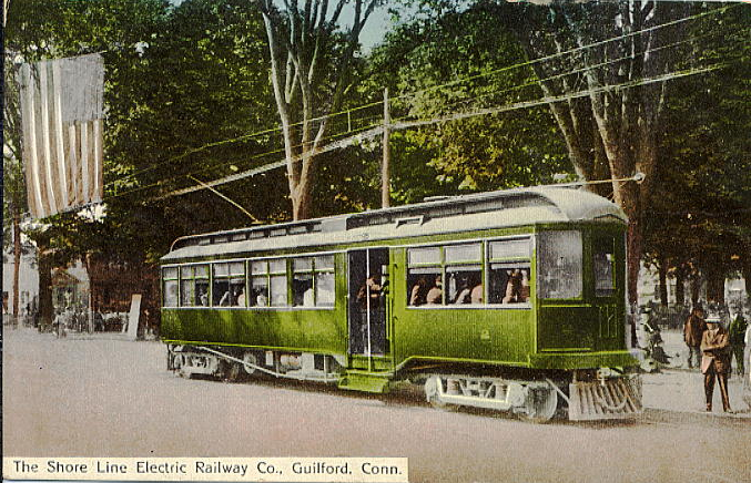 Gilford, Conn. ca. 1900